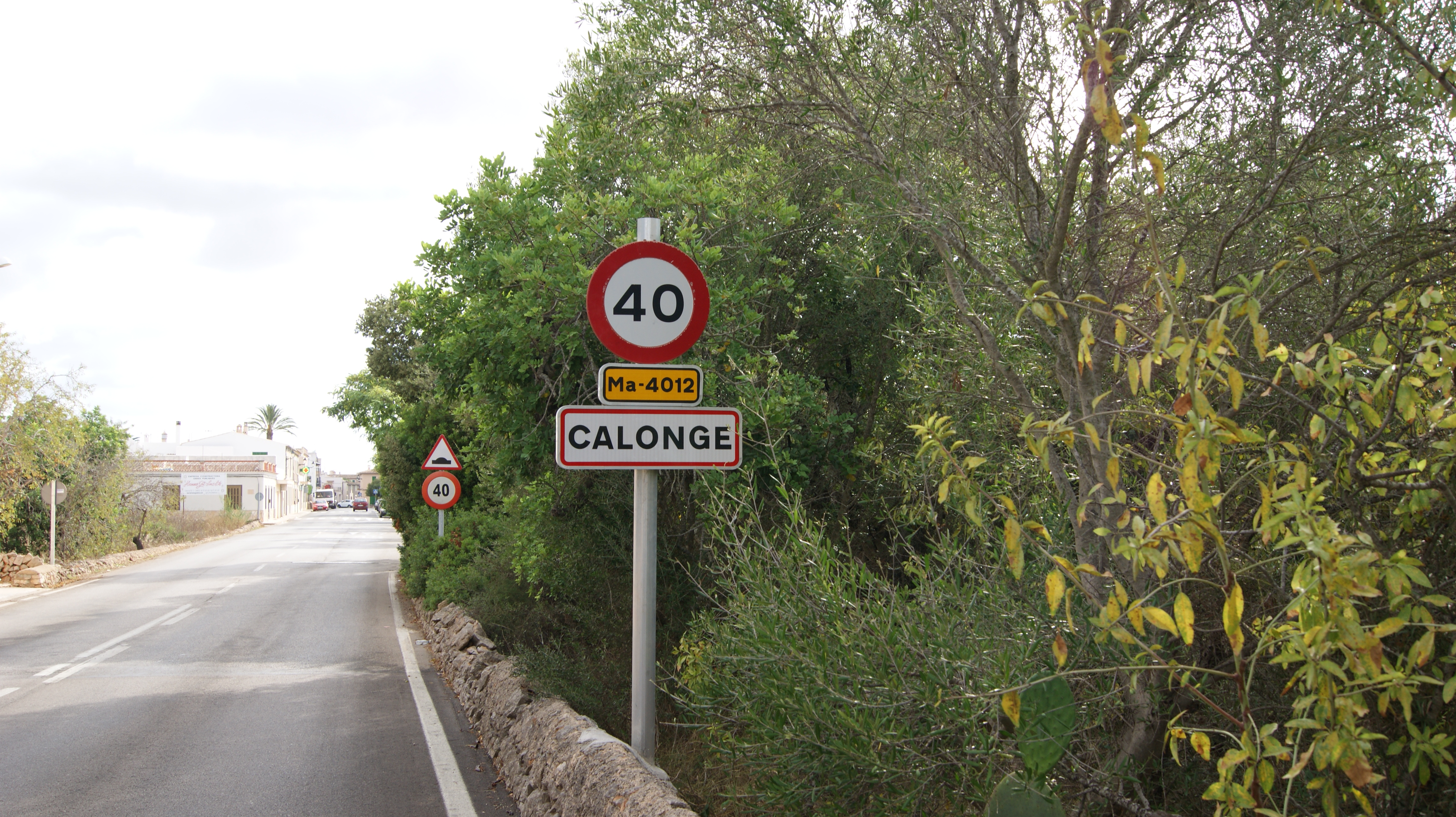 Town sign of Calonge, municipality Santanyí on Mallorca.